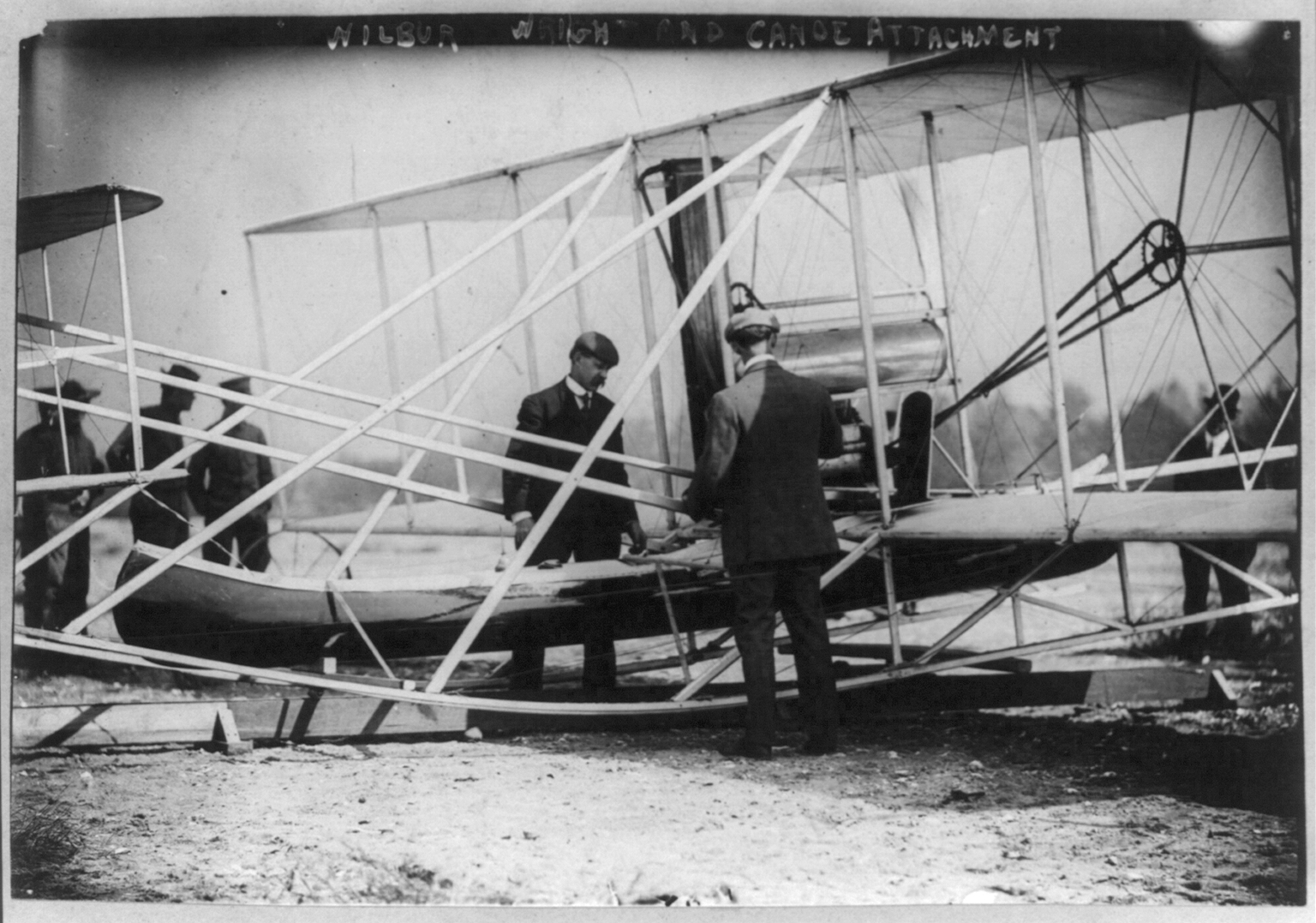 Title: Wilbur Wright examining canoe attachment to aeroplane before 1st flight over water Abstract/medium: 1 photographic print.